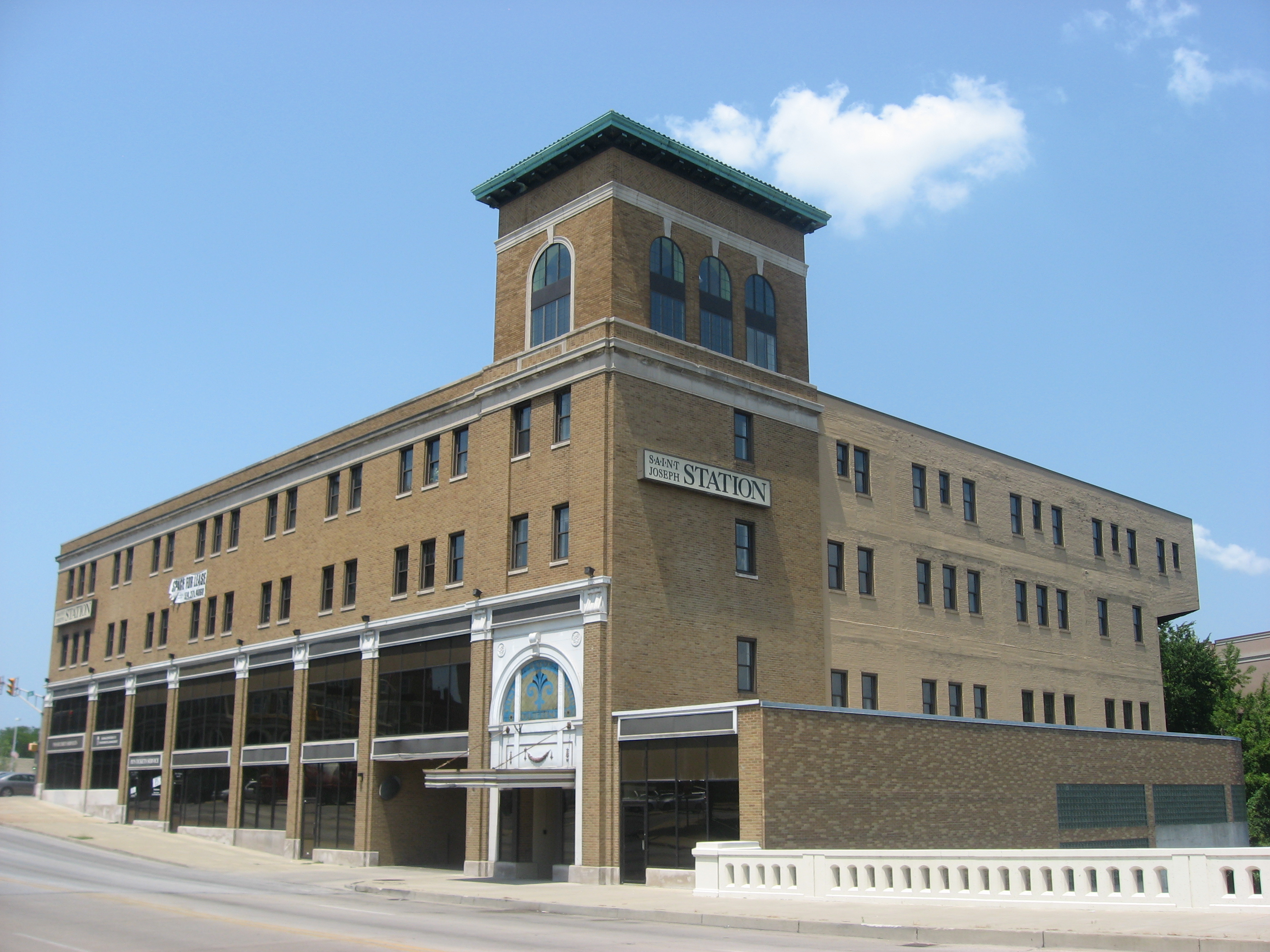 Rear and southern side of the LaSalle Annex, located at 306 N. Michigan Street in South Bend, Indiana, United States. Built in 1925, it is listed on the National Register of Historic Places.